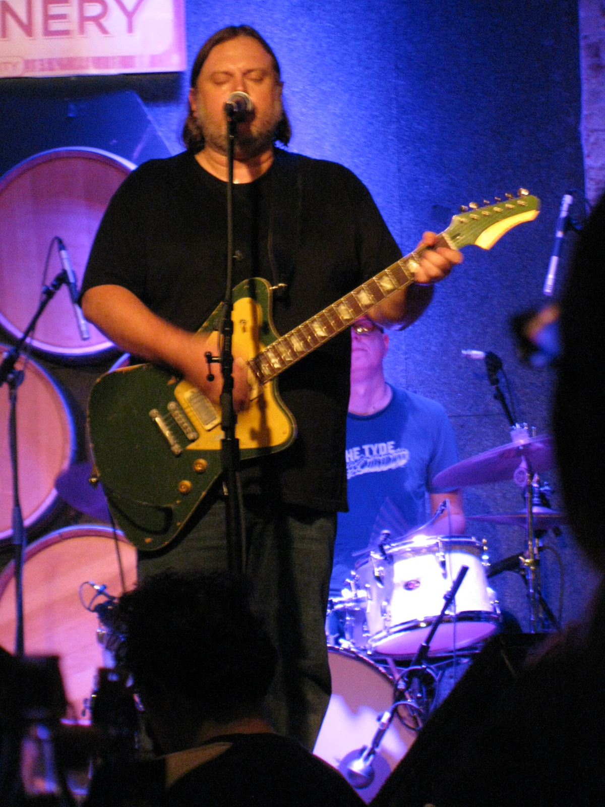 Matthew Sweet at City Winery